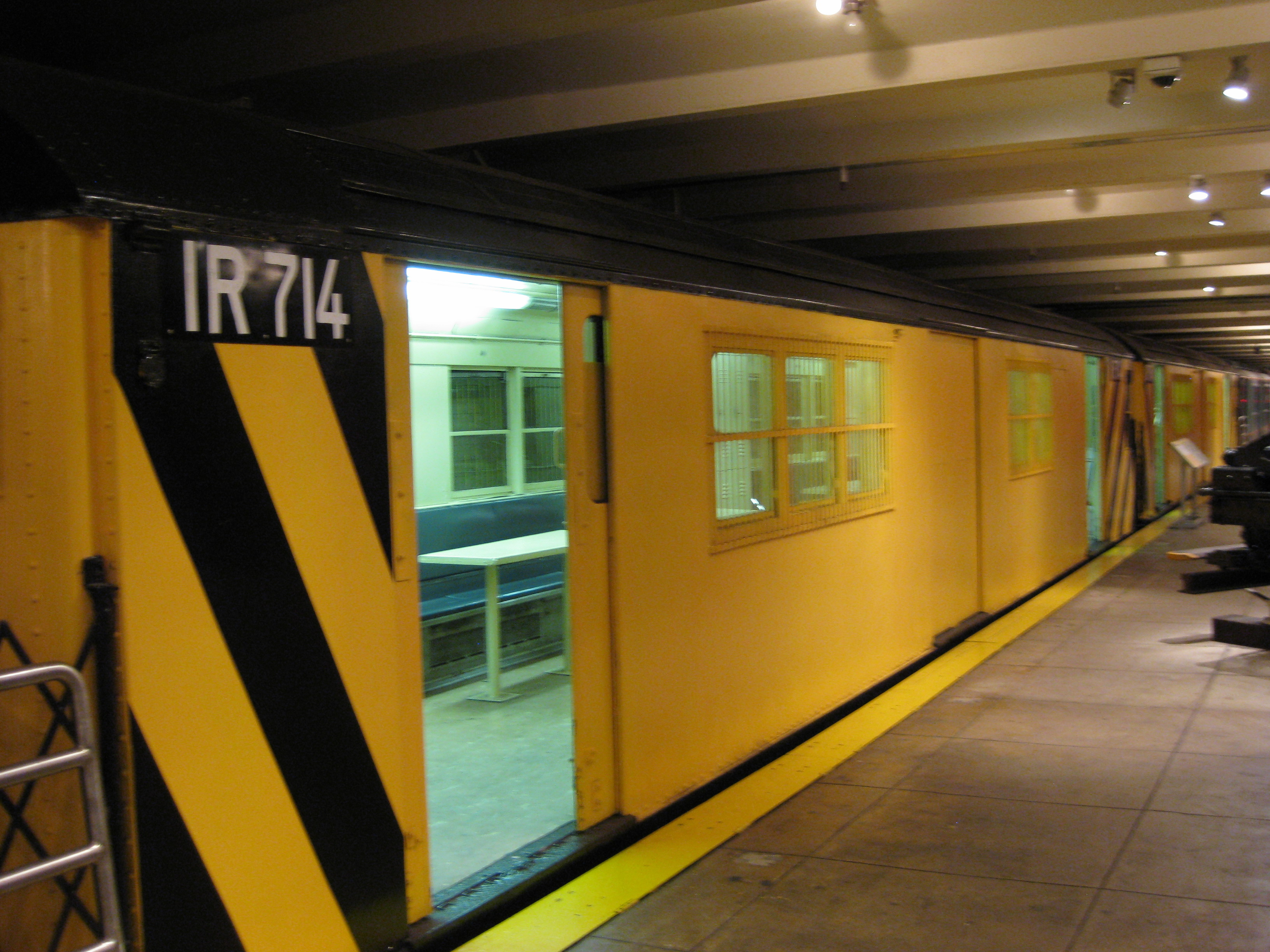 A retired 'Money Train' car at the New York Transit Museum in October 2009